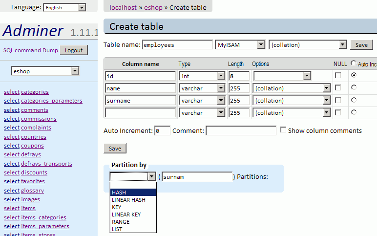 Screenshot of the MySQL tool, Adminer